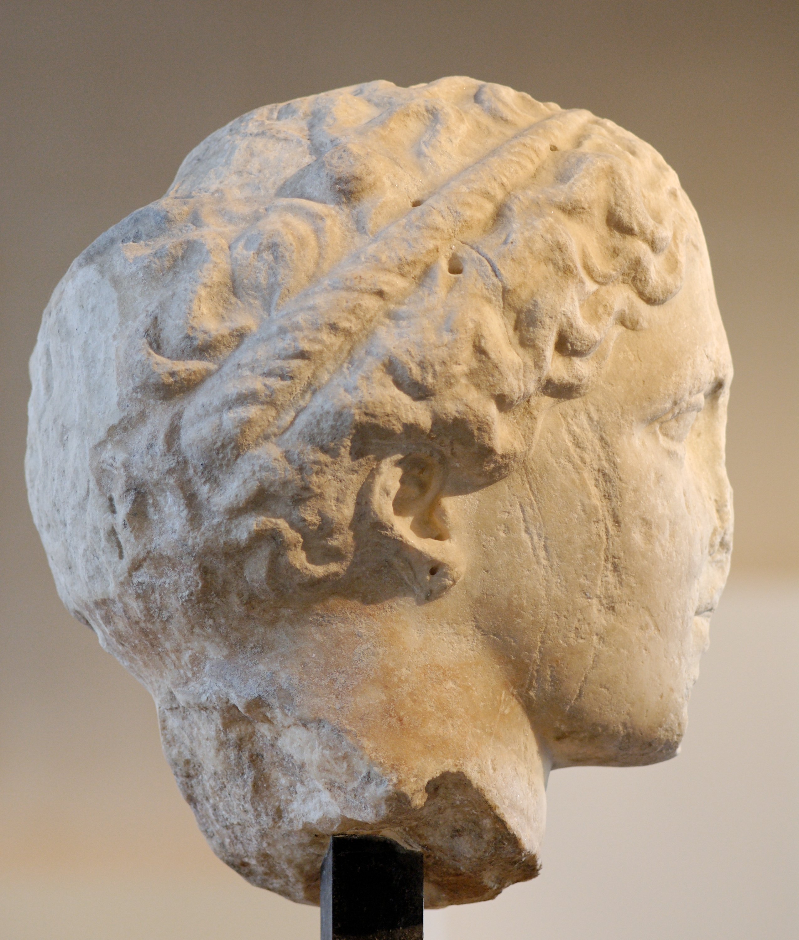 So-called “Weber-Laborde head”, usually interpreted as the head of Iris, West pediment N of the Parthenon. Pentelic marble, ca. 447–433 BC.